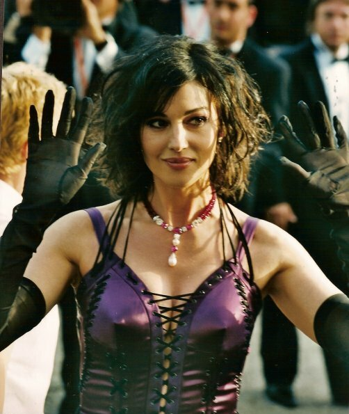 Monica Bellucci at the Cannes film festival.